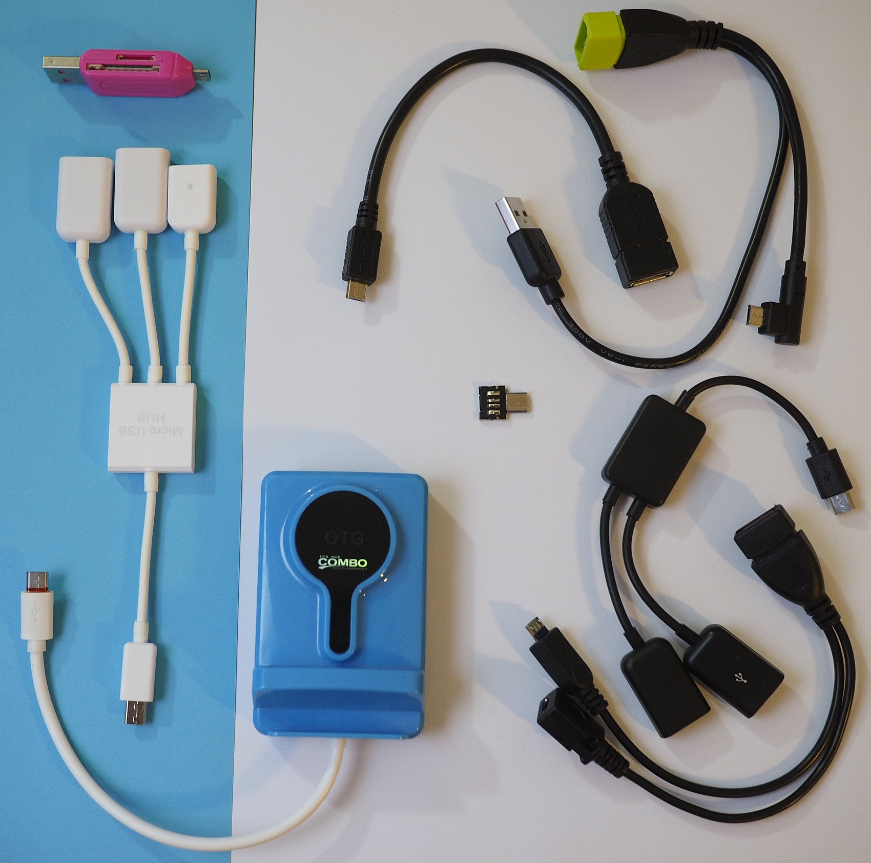 A collection of OTG-adapter, OTG-hubs, OTG-card-reader and one OTG-combi-device